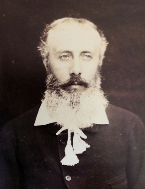 Louis-Théophile Marie Rousselet portrait circa 1910